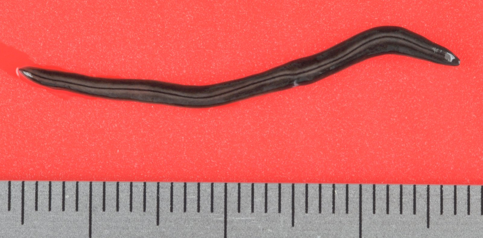 Invasive land planarian, probably Kontikia ventrolineata (Geoplanidae), from Ploudalmezeau, Finistère, France. Scale in millimeters Specimen in Muséum National d'Histoire Naturelle, Paris, France, MNHN JL56